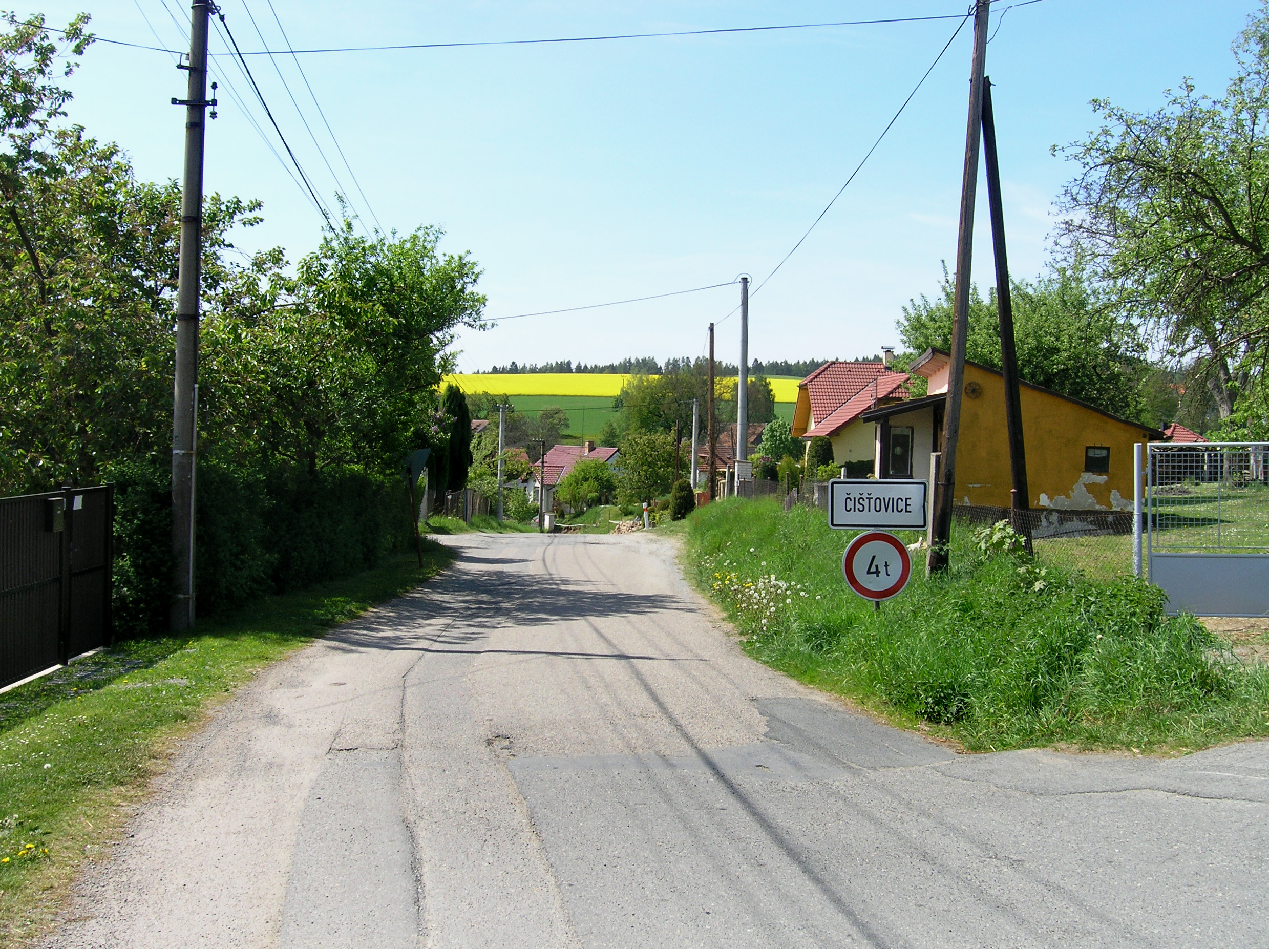 North part of Čišťovice, part of Heřmaničky village, Czech Republic